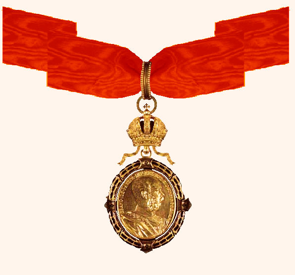 Order of Arts and Sceince K.u.K. Österreichisch-Ungarisches Ehrenzeichen für Kunst und Wissenschaft